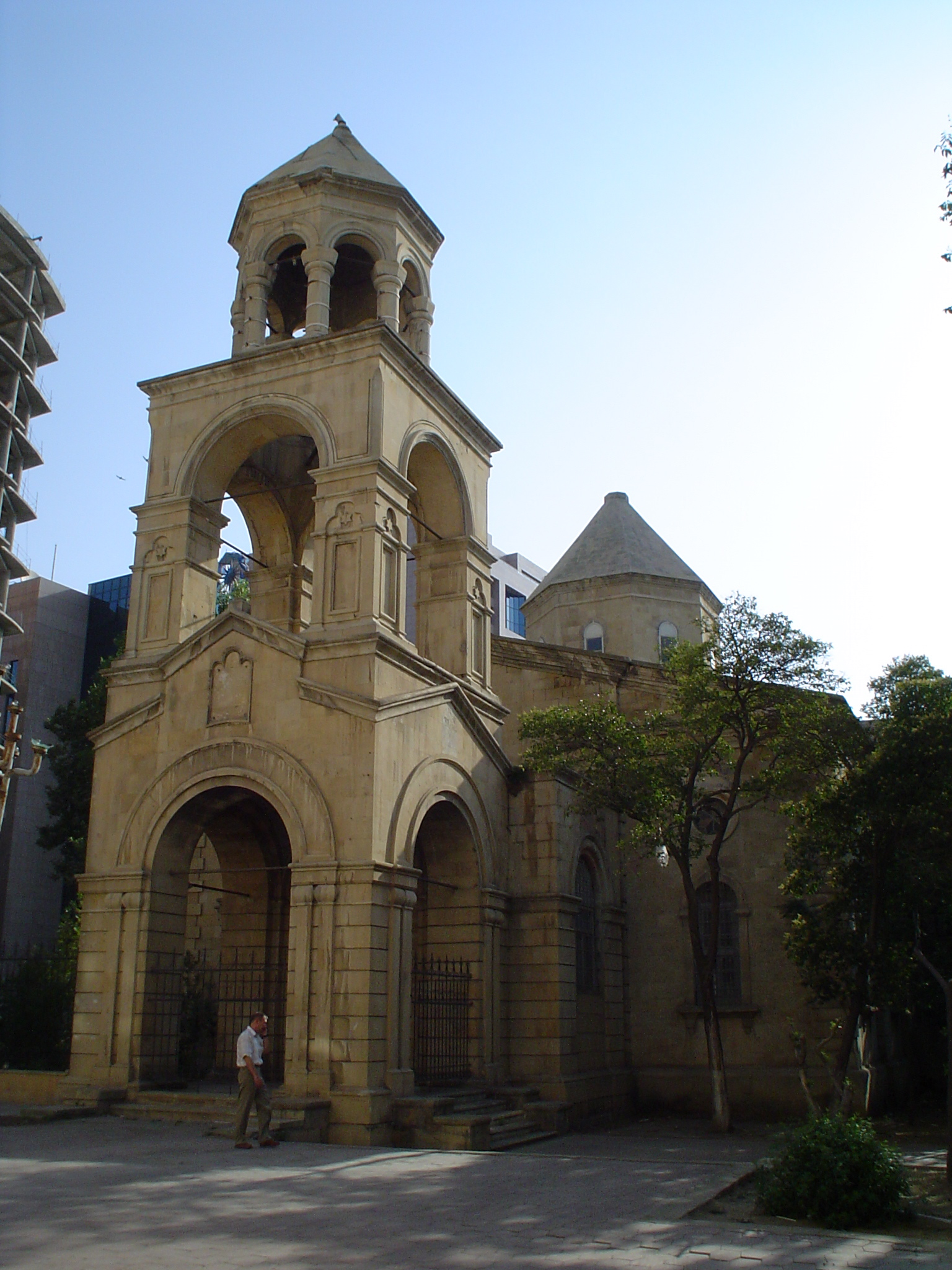 2008-07-14 Baku, Azerbaijan: Armenian church. It is currently closed. There used to be many Armenians in Baku and in other parts of Azerbaijan, but most of them fled as a consequence of the persecutions in the time leading up to and during the war in Nagorno-Karabakh. There are still som Armenians left, but most of them are in inter-married families. In Armenia the situation is much the same, just opposite.